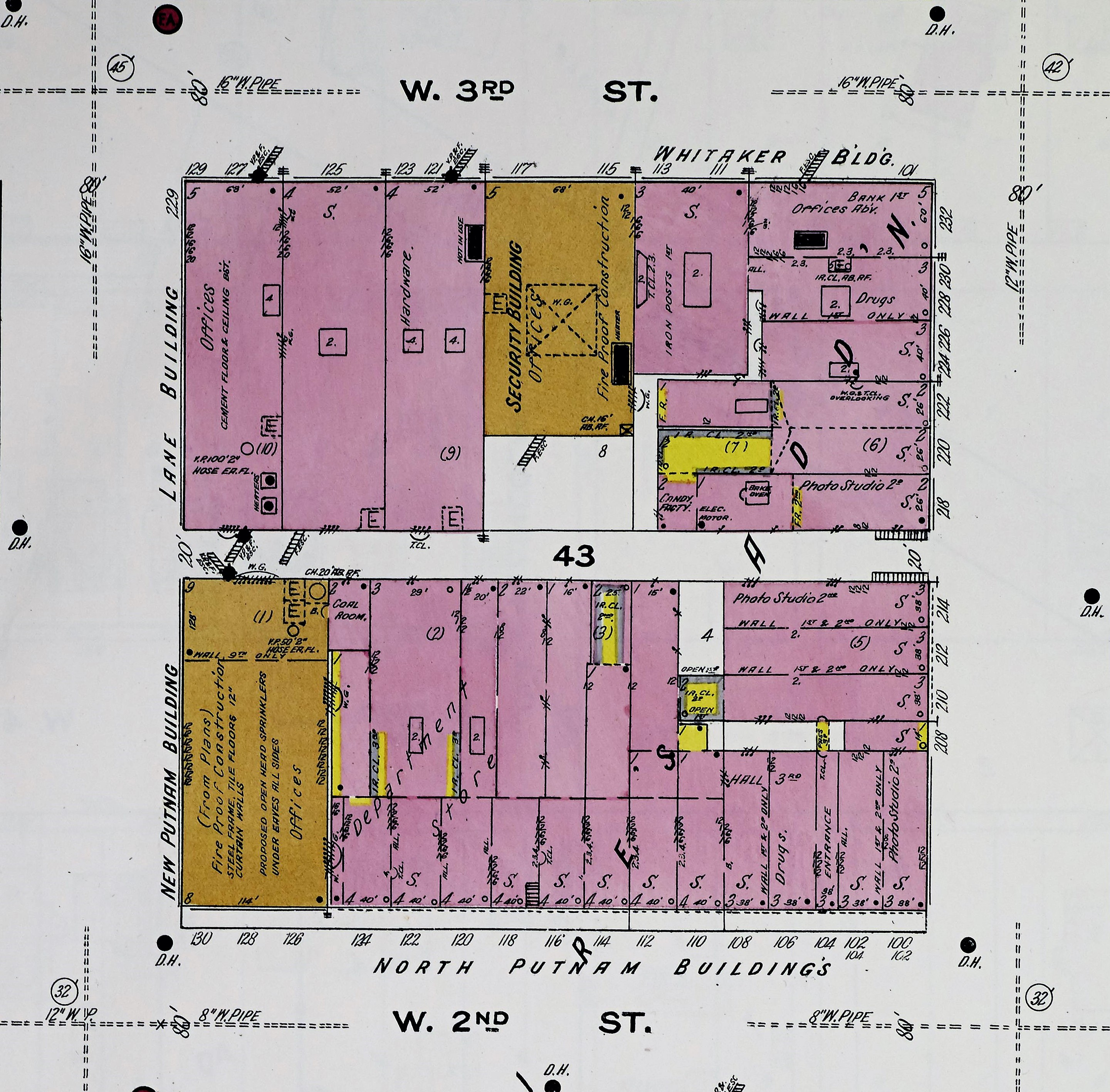 A 1910 Sanborn Fire Insurance Map cropped to show a commercial block in Downtown Davenport, Iowa, United States. The lower half of the block is where the Putnam-Parker Block is presently located. The Putnum Building (gold) is on the left side of the block. The rest of the half-block (pink) are the North Putmun Buildings, no longer extant, built by city founder Antoine Le Claire. The buildings on the north side of the block are also no longer extant.